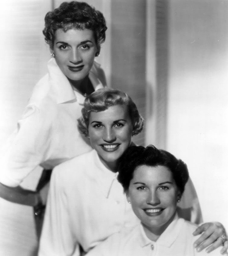 Photo of the singing group, The Andrews Sisters. From top: LaVerne, Patty, Maxene.